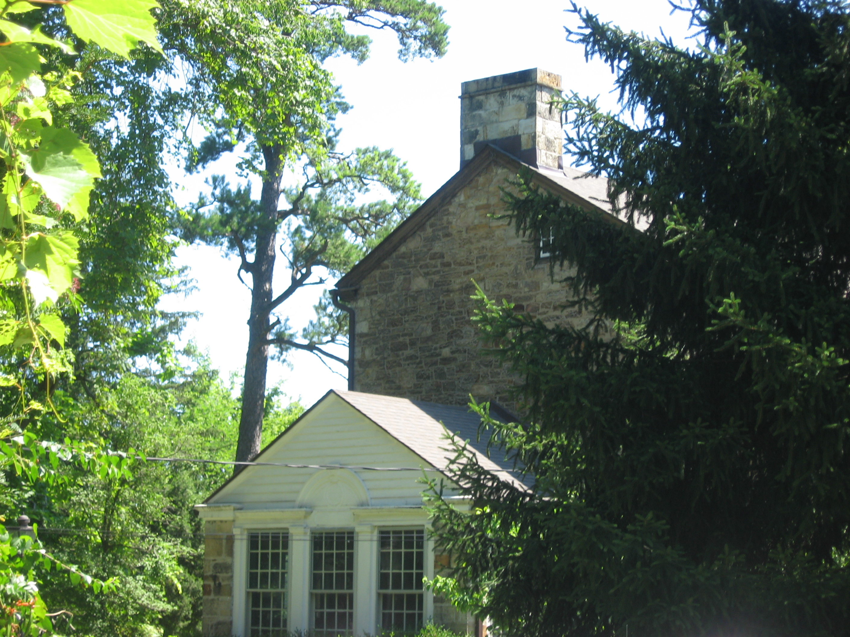 Side of the Renick House, also known as "Paint Hill", located at 17 Mead Drive on the western side of Chillicothe, Ohio, United States. Built in 1804, it is listed on the National Register of Historic Places.